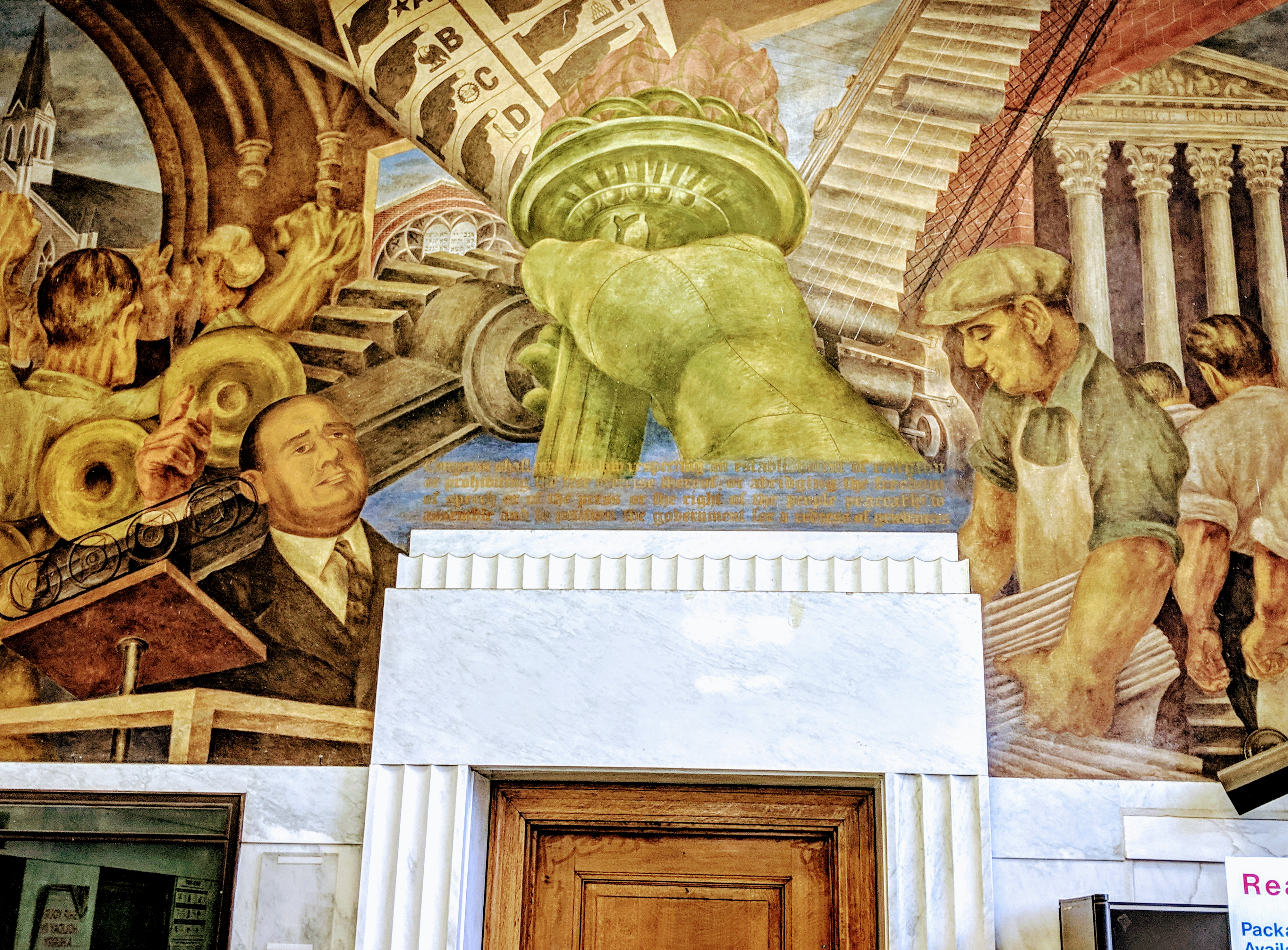 Mural commissioned by the Works Progress Administration, by Ben Shahn